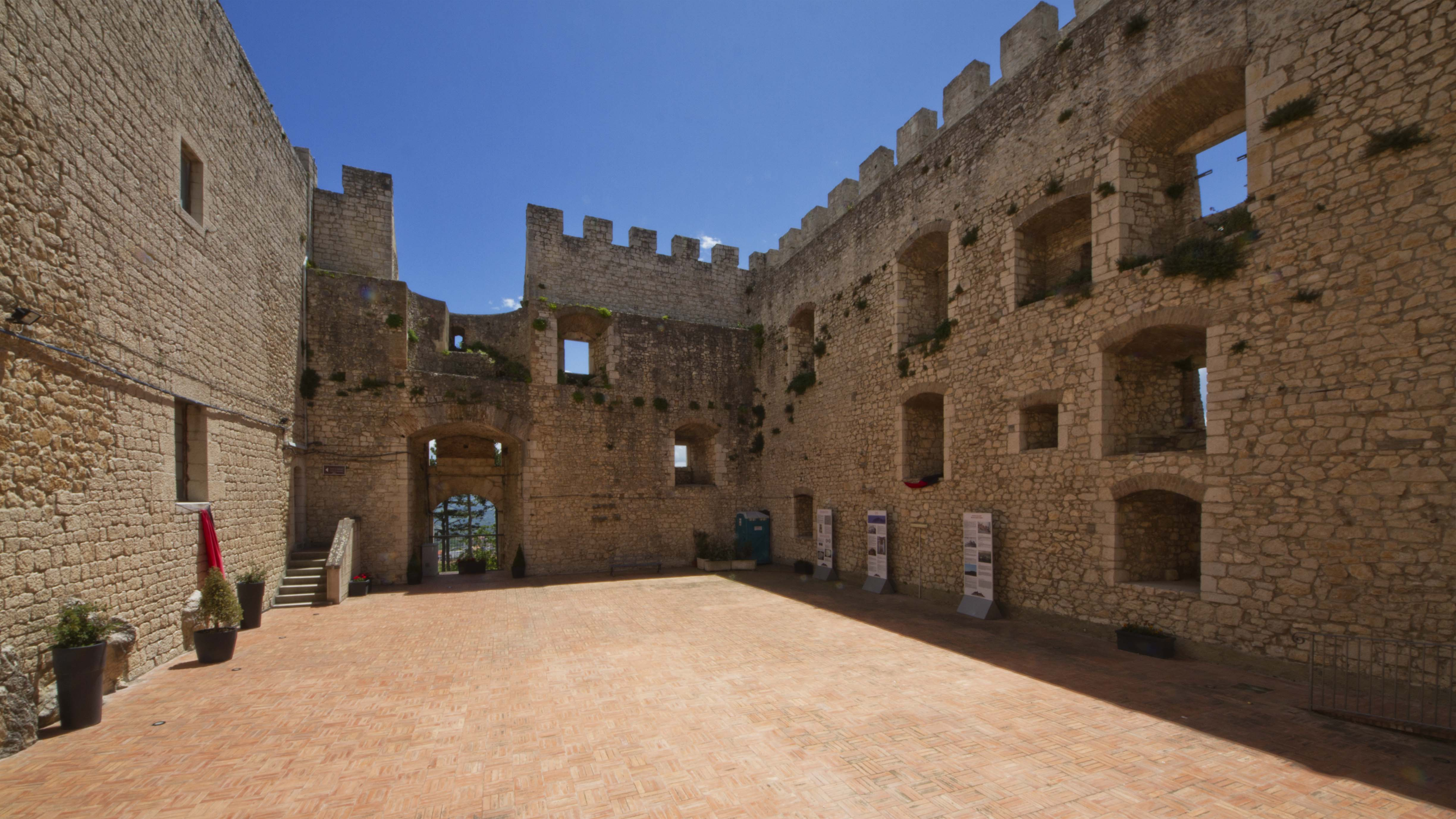 Old Town, 86100 Campobasso, Italy